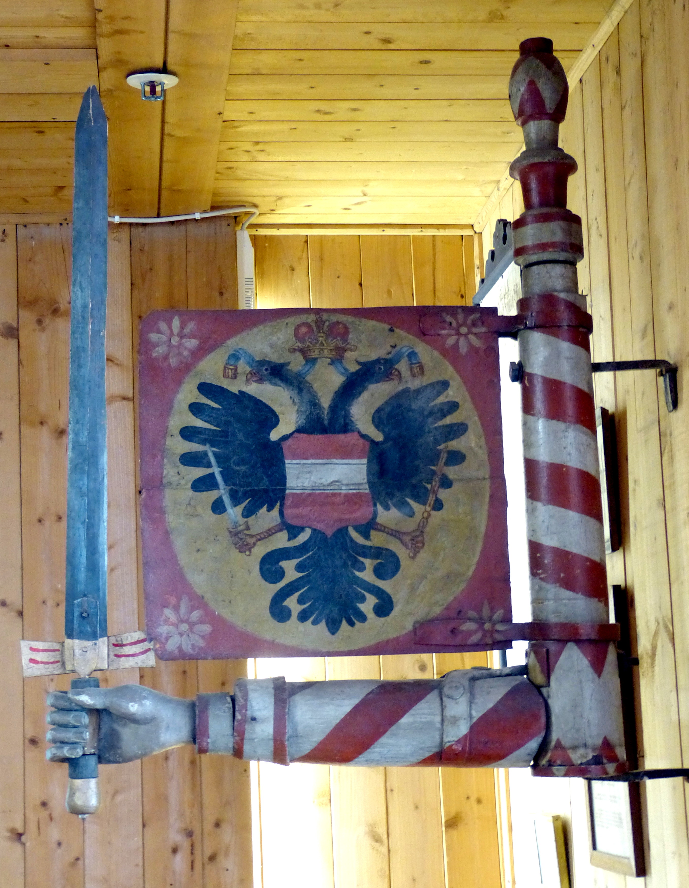 Freistadt ( Upper Austria ). Mühlviertler Schlossmuseum: Freiung ( 18th century ) - Sign of city privileges.